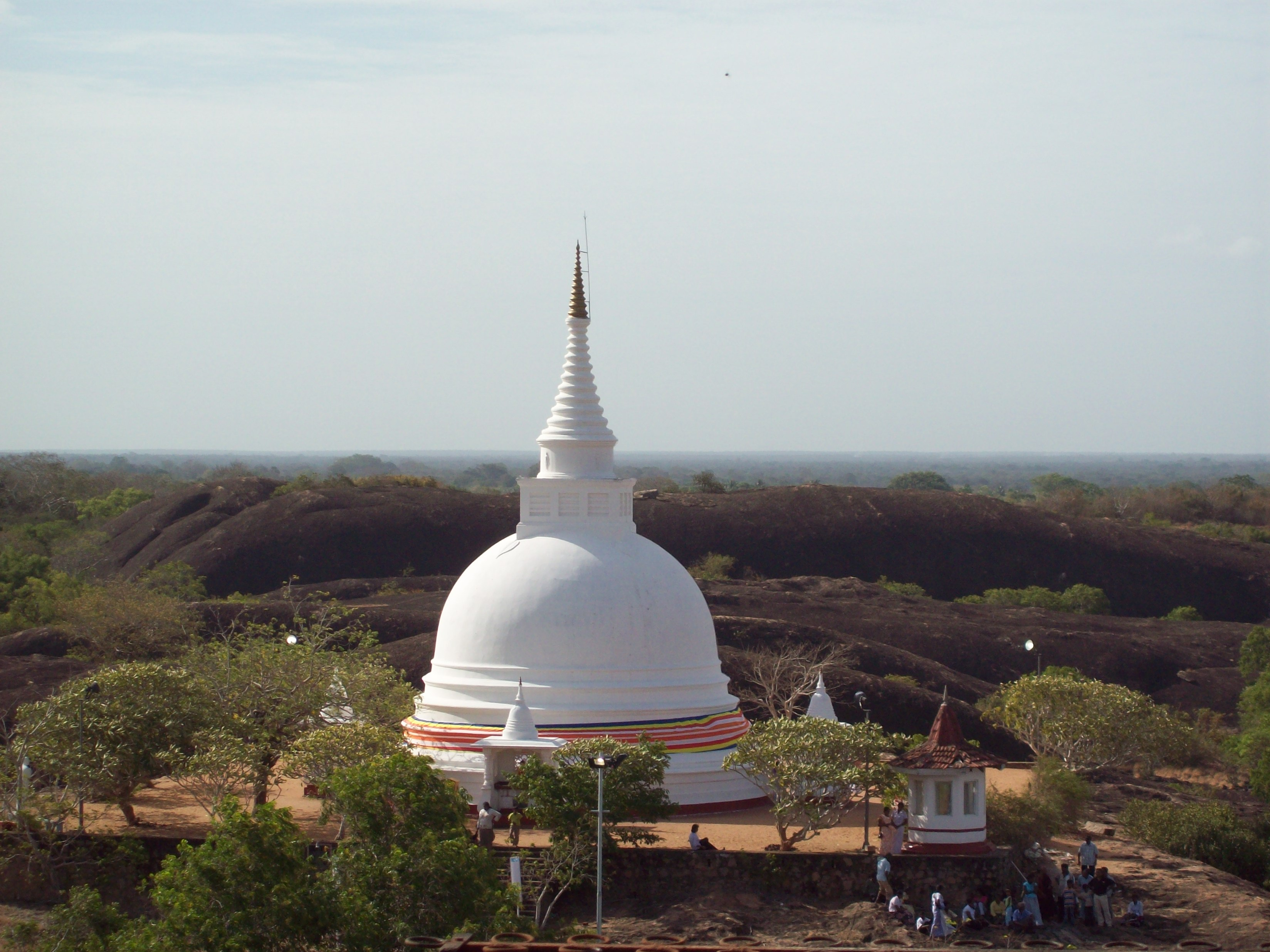 Thanthirimale Dageba from top view